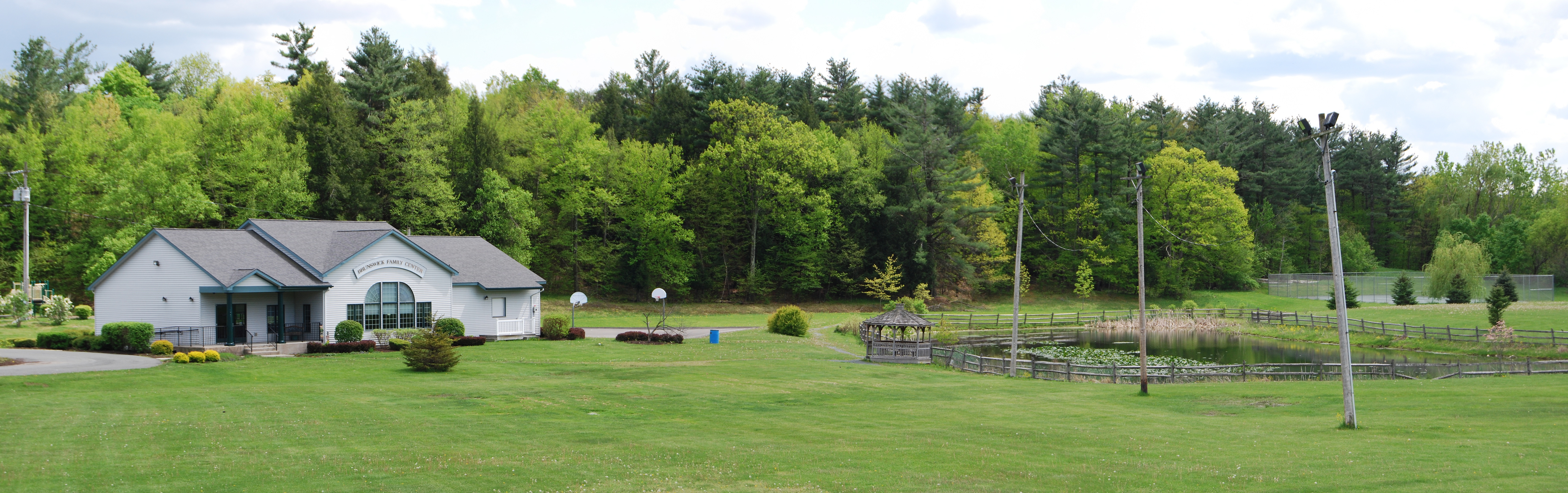 Community Center in the town of Brunswick, New York, United States